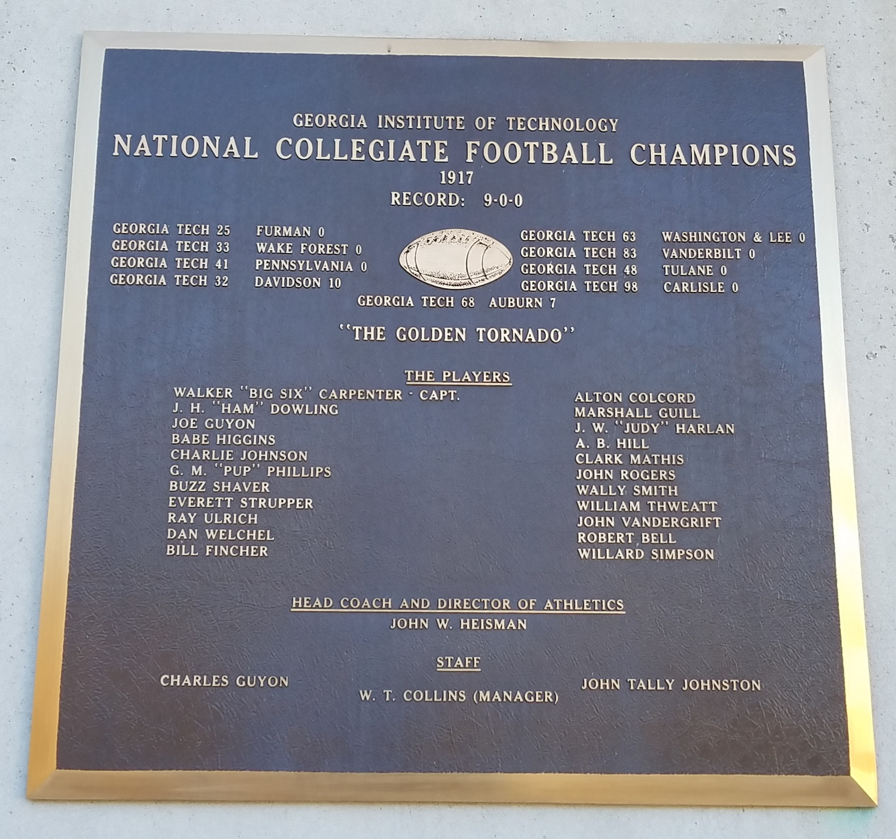 Plaque commemorating the 1917 Georgia Tech Yellow Jackets football national championship team.